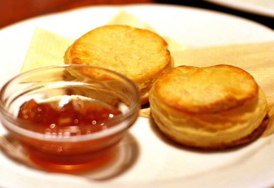 Homemade scones with cherry beer jam